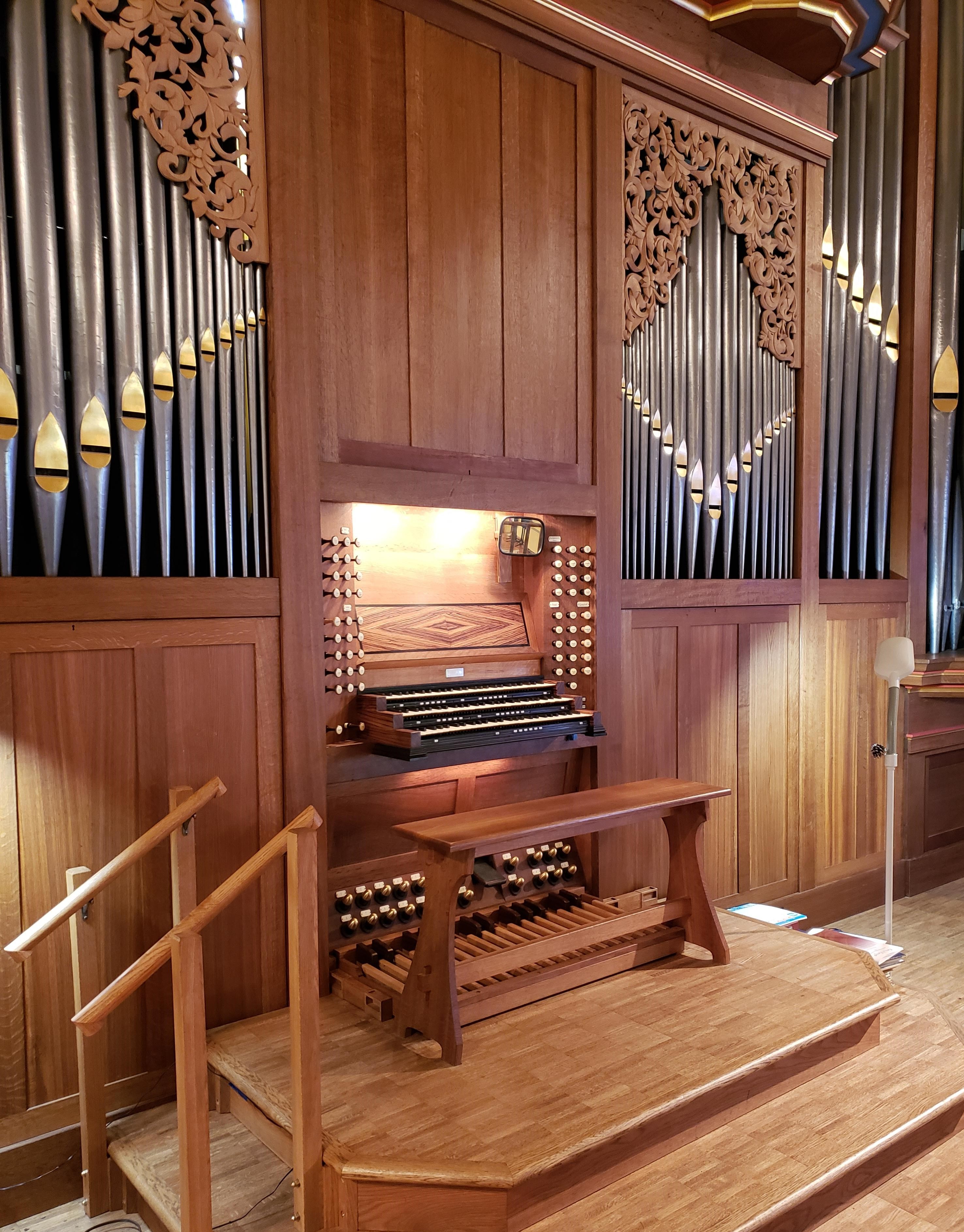 Console of the Brombaugh Opus 35 pipe organ, First Presbyterian Church, Springfield, IL